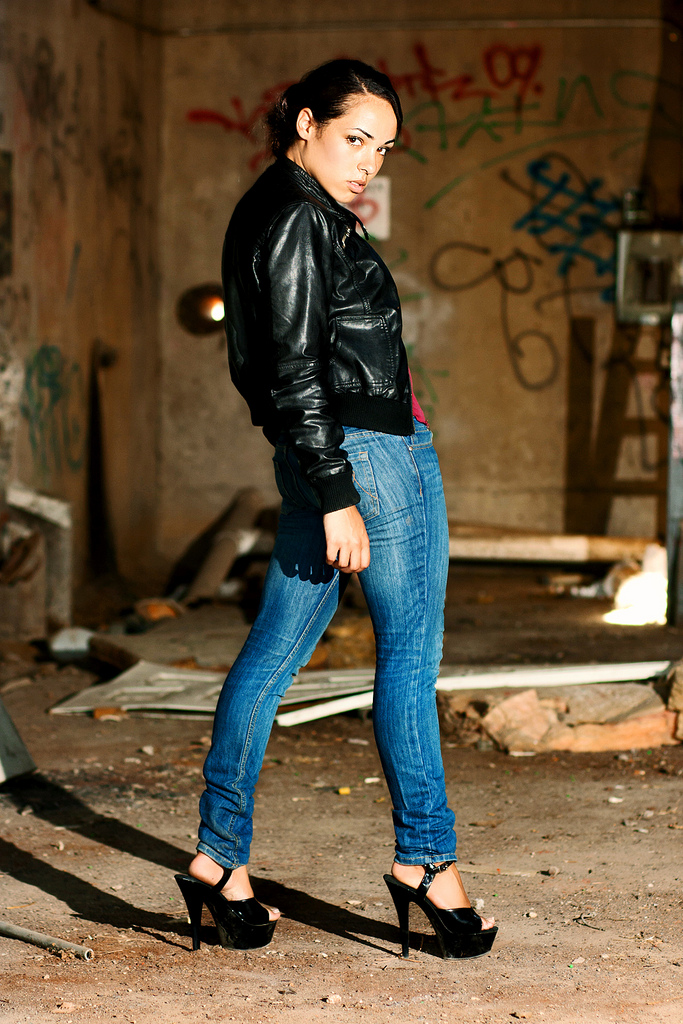 Slim-fit pants, skinny jeans, pegs, drainpipes, stovepipes, cigarette pants, pencil pants, skinny pants or skinnies. Pantalón pitillo